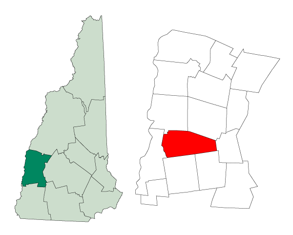 Map of a municipality in Sullivan County, New Hampshire